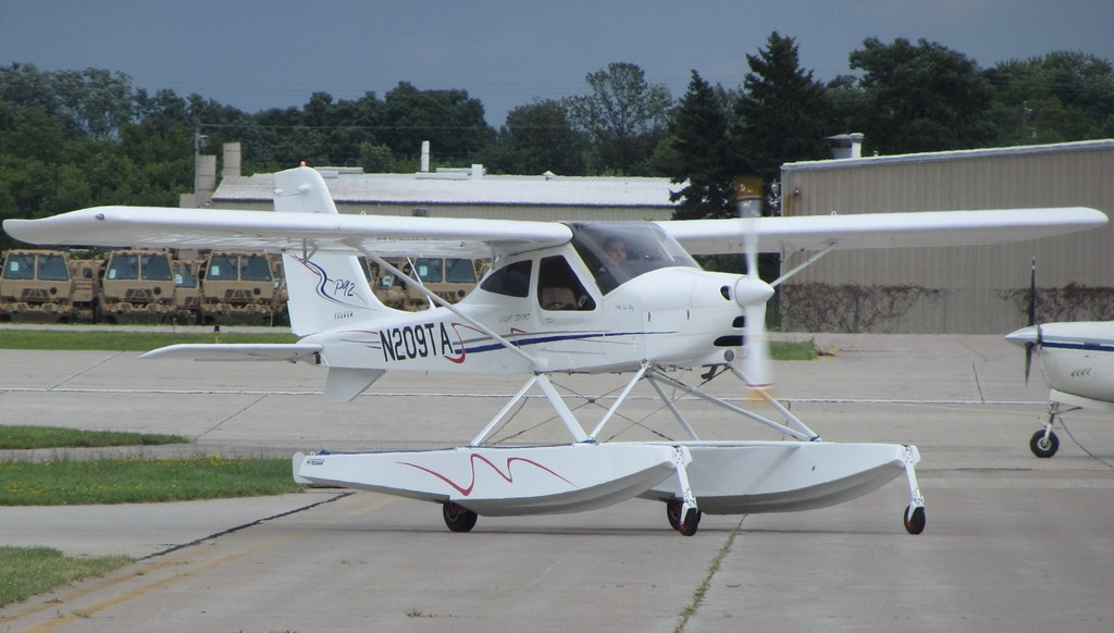 Tecnam P92 SEASKY